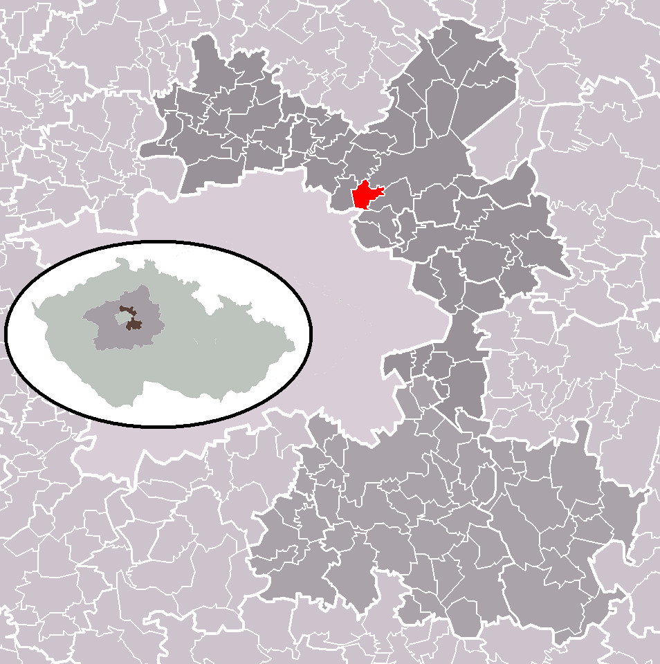 Location of Podolanka municipality within Prague-East District and administrative area of Brandýs nad Labem-Stará Boleslav as a Municipality with Extended Competence.